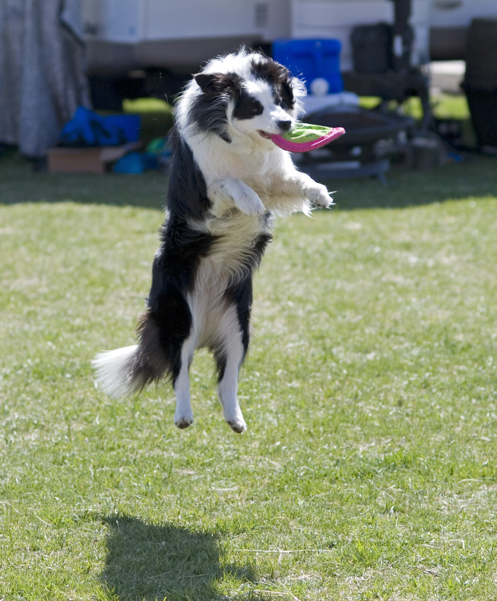 A Border Collie jumping to catch a soft flying disc.